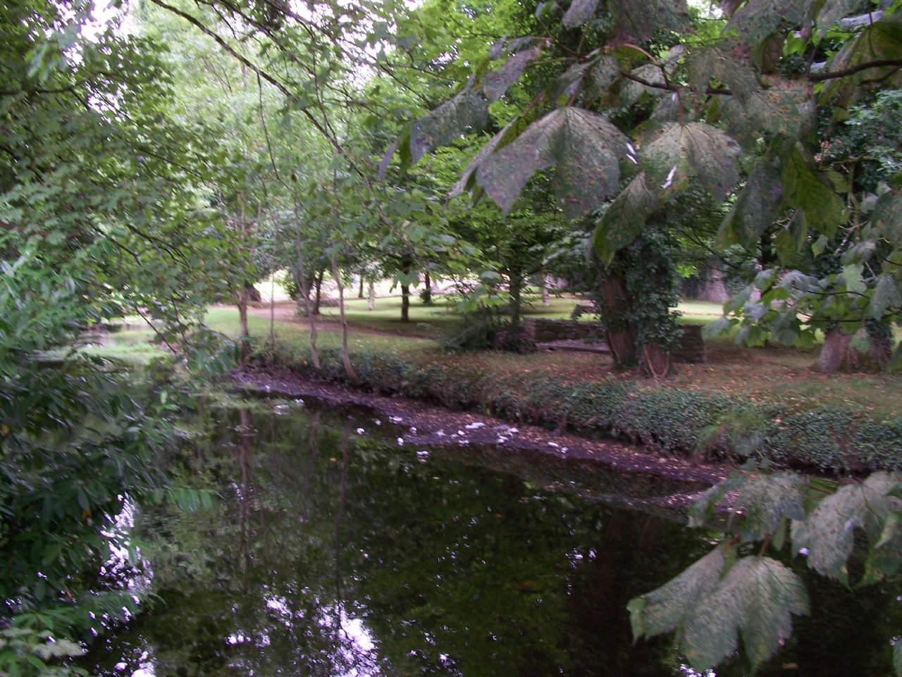 This is the river in the beautiful park in Castlerea. One famous person from Castlerea is John Waters, who wrote Ireland's unsucessful Eurovision 2007 song, a real source of embarrassment for us all. Find out more about Castlerea at